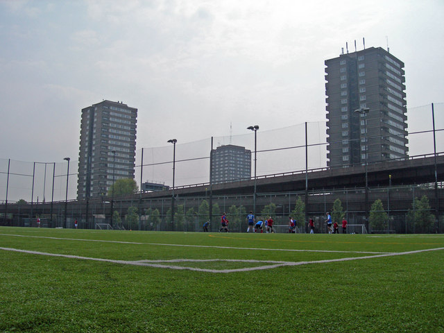 Westway Sports Centre in foreground. In the background are the Westway elevated road, and three tower blocks: Whitstable House, Grenfell Tower (pre-refurbishment) and Dixon House